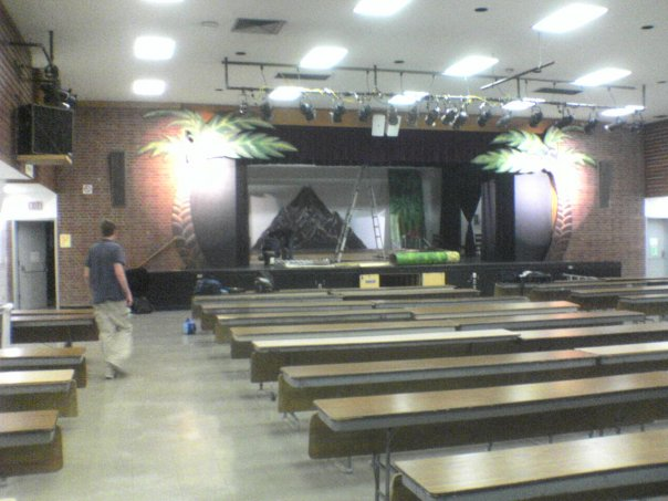 The York Mills C.I. stage during the South Pacific strike.